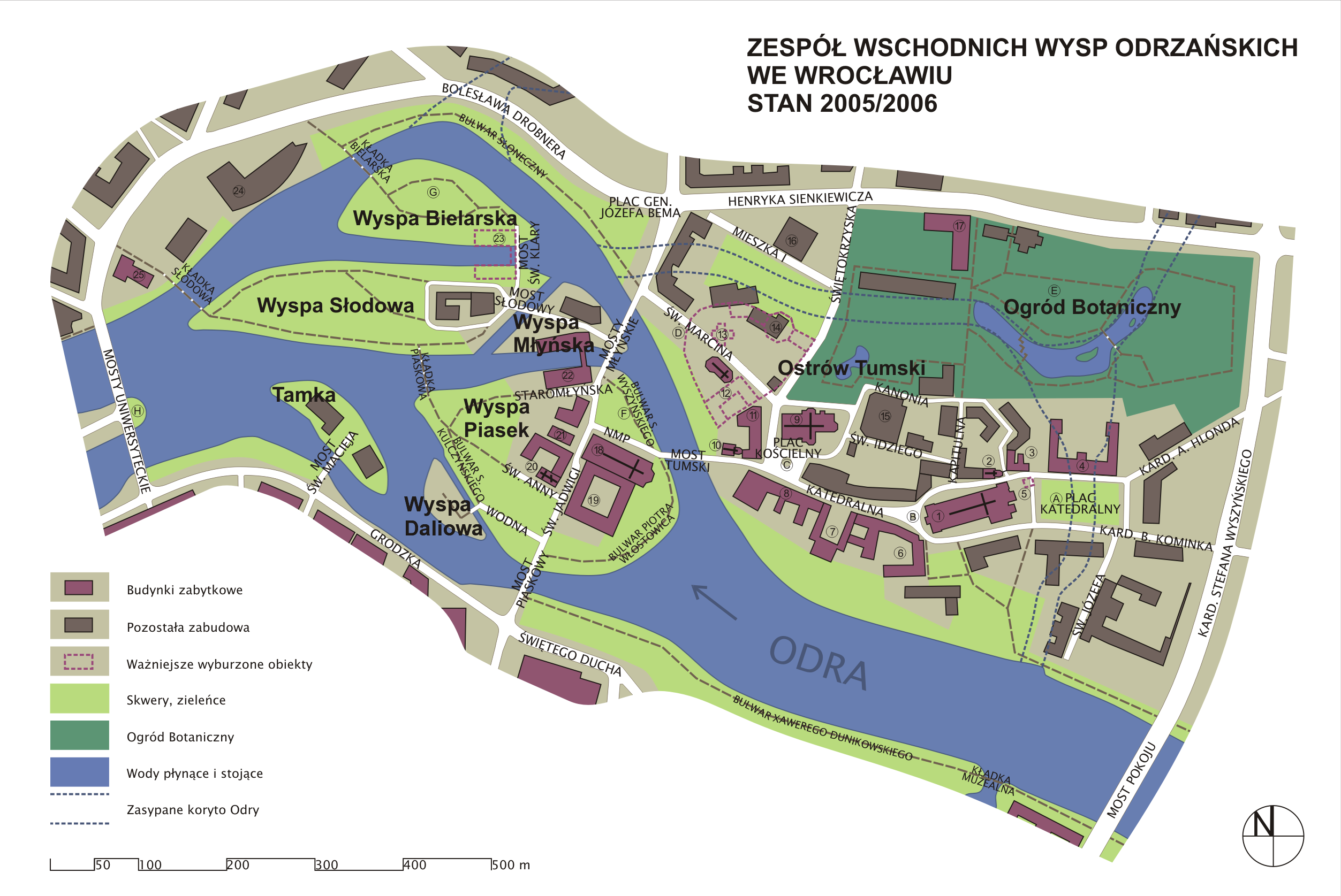 Wrocław, eastern islands on the Odra River, 2005/2006